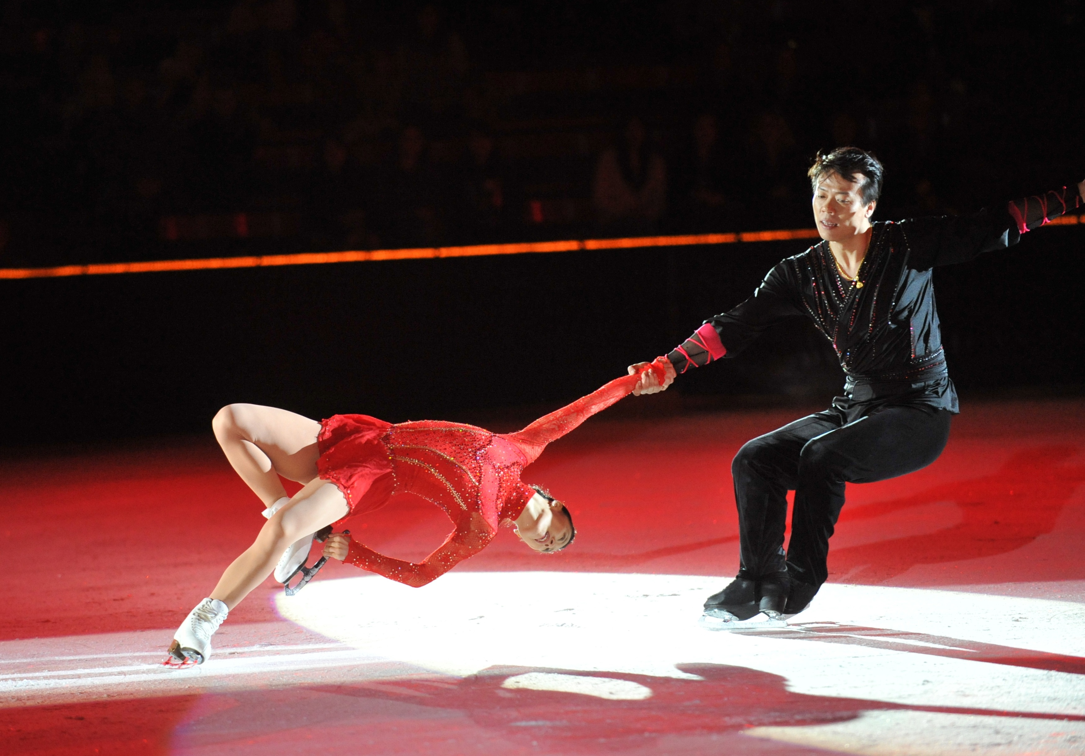 Xue Shen and Hongbo Zhao skate at Ice Chips 2011 - Hosted by The Skating Club of Boston at Harvard's Bright Arena